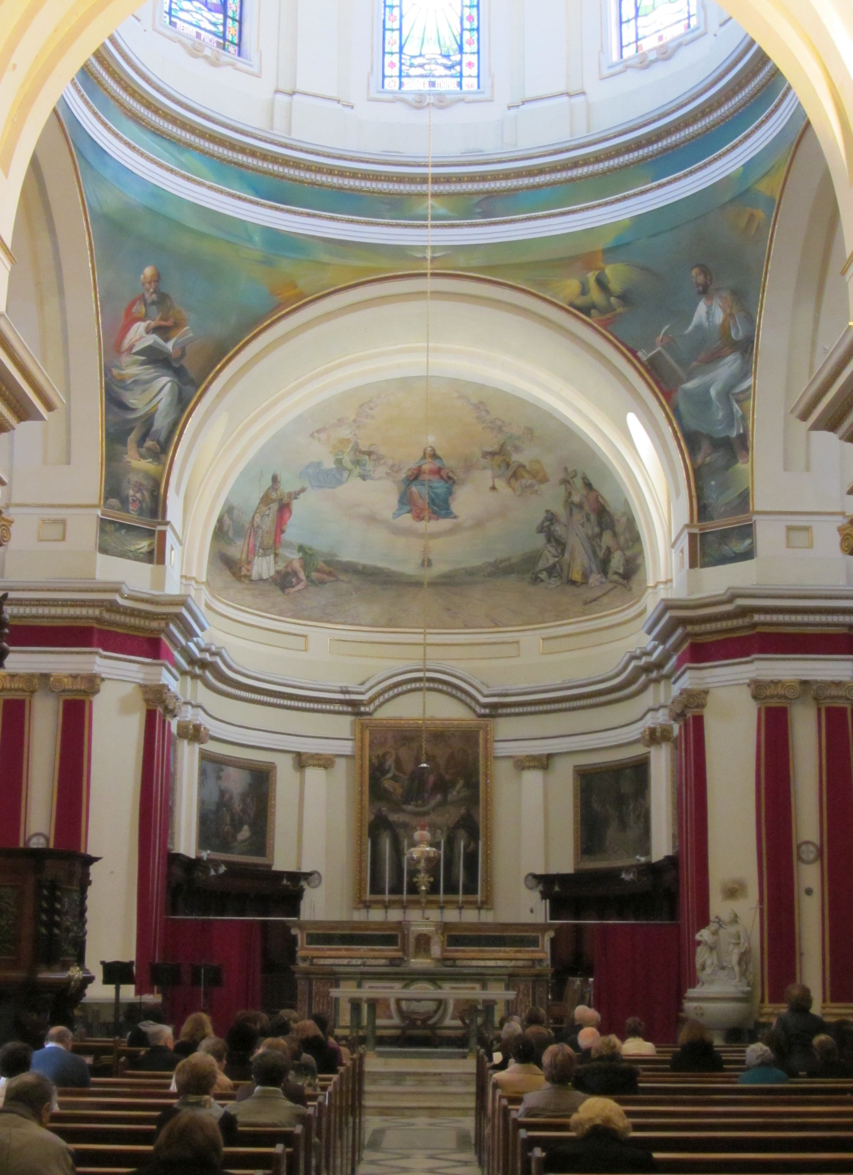 Interior of Stella Maris Parish Church in Sliema, Malta